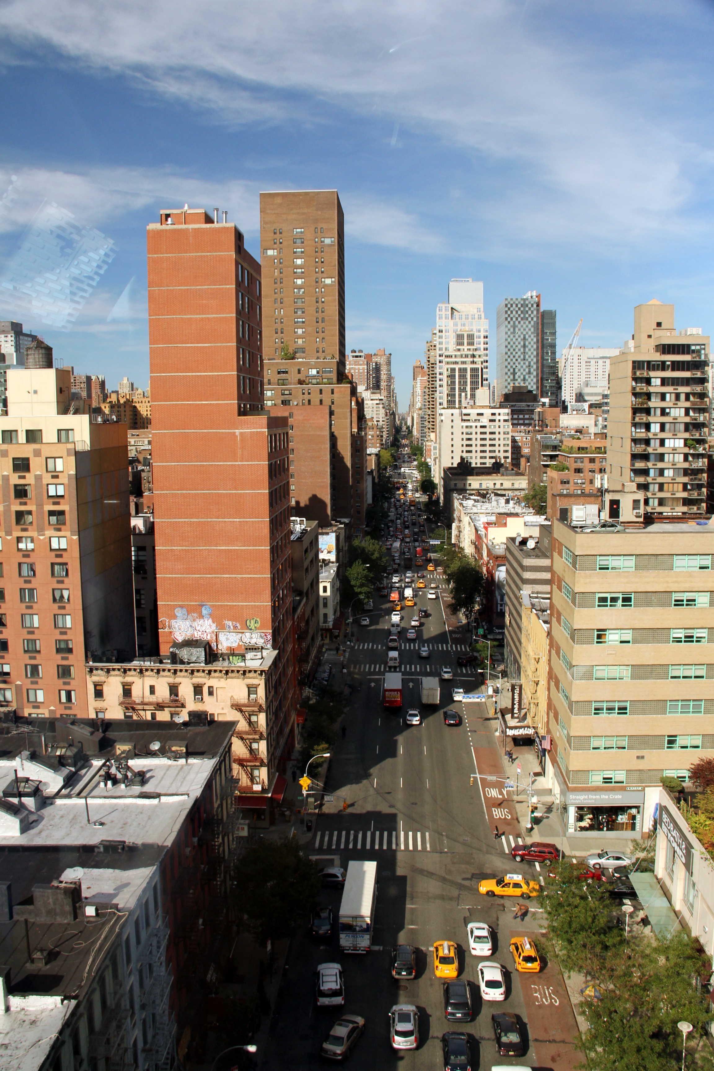 First Avenue North at Lenox Hill, Upper East Side in Manhattan as seen from the Roosevelt Island Aerial Tramway.